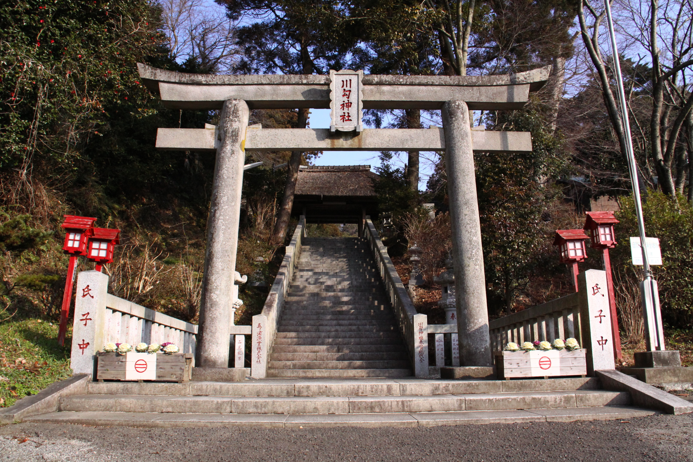 Kawawa jinja Gate